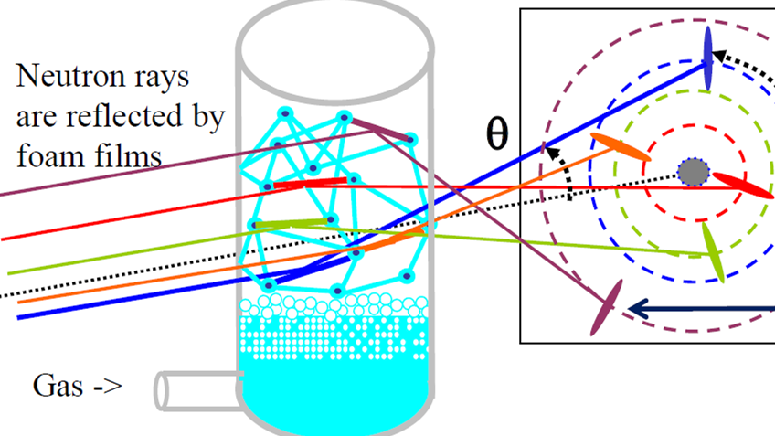 Trajectories of the radiation rays (X rays, neutron) reflected by the films in the foam